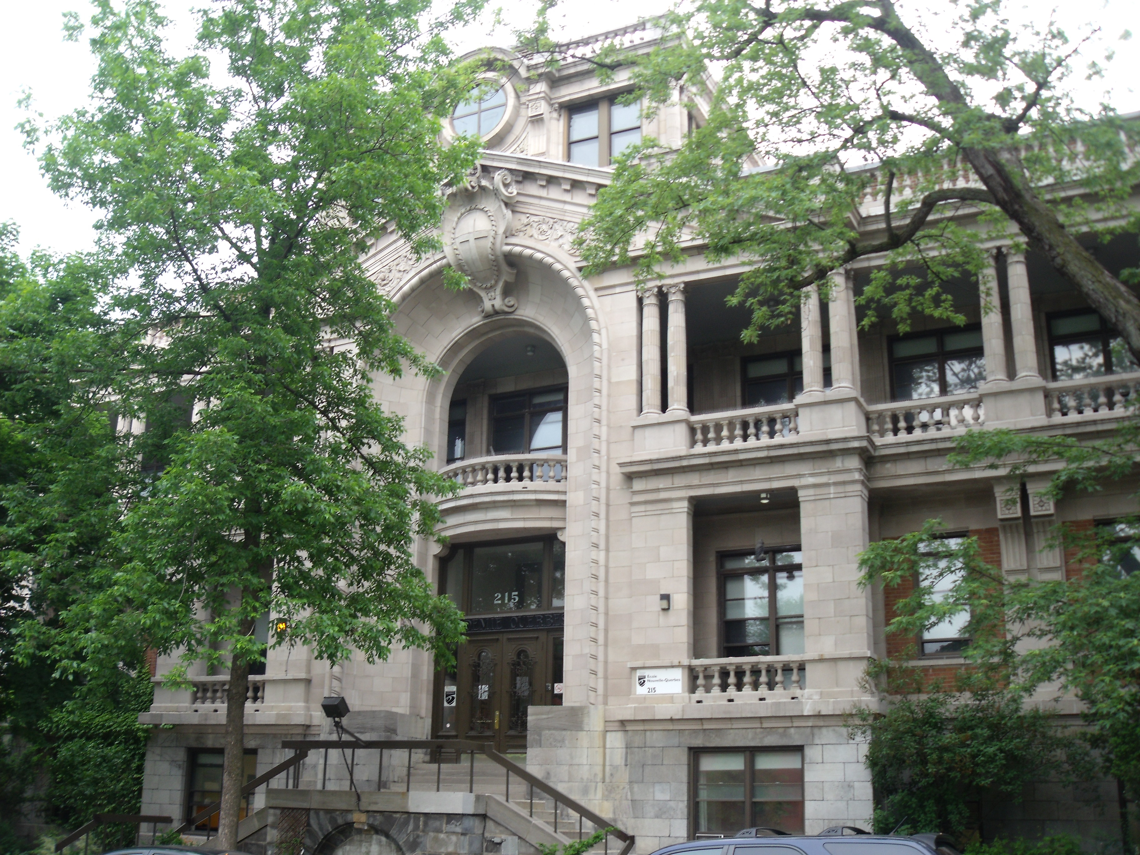 The Académie Querbes Building houses the Nouvelle-Querbes school, 215 Bloomfield avenue, Outremont, Quebec, Canada.